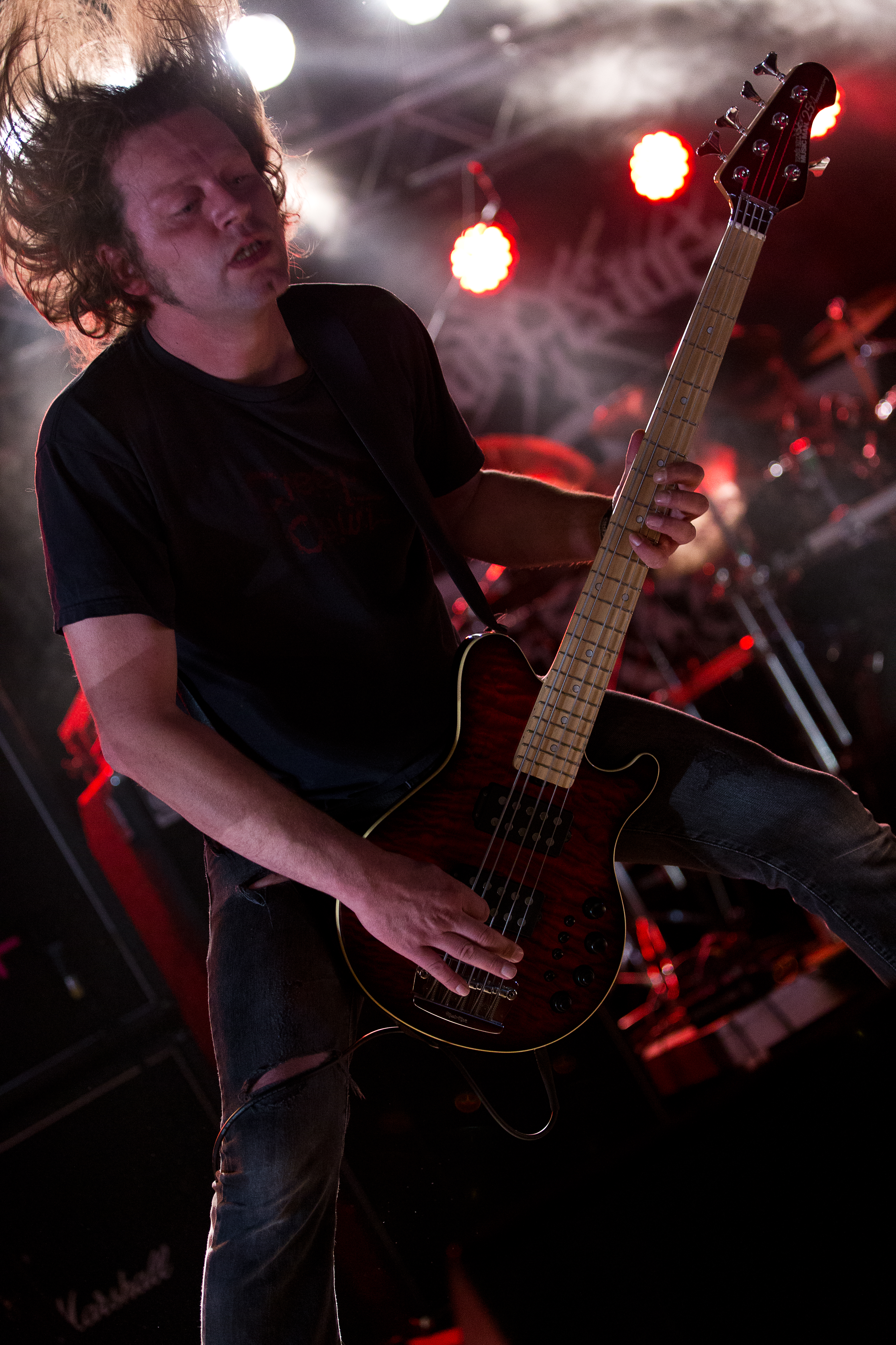 The German death metal band Weak Aside at the Party.San Metal Open Air 2016 in Obermehler-Schlotheim/Germany.